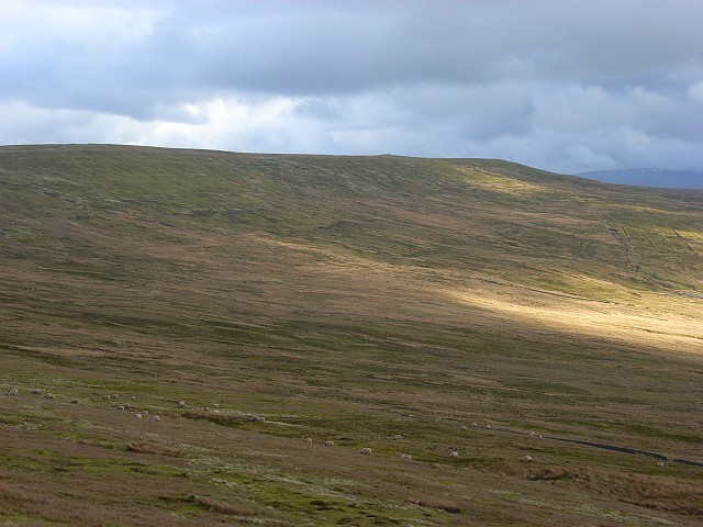 The flank of Black Fell Sheep graze the rough grassy slope. Sunny spells all but disappear as the holes in the clouds fill in upon hitting the western upslopes of the Pennines.